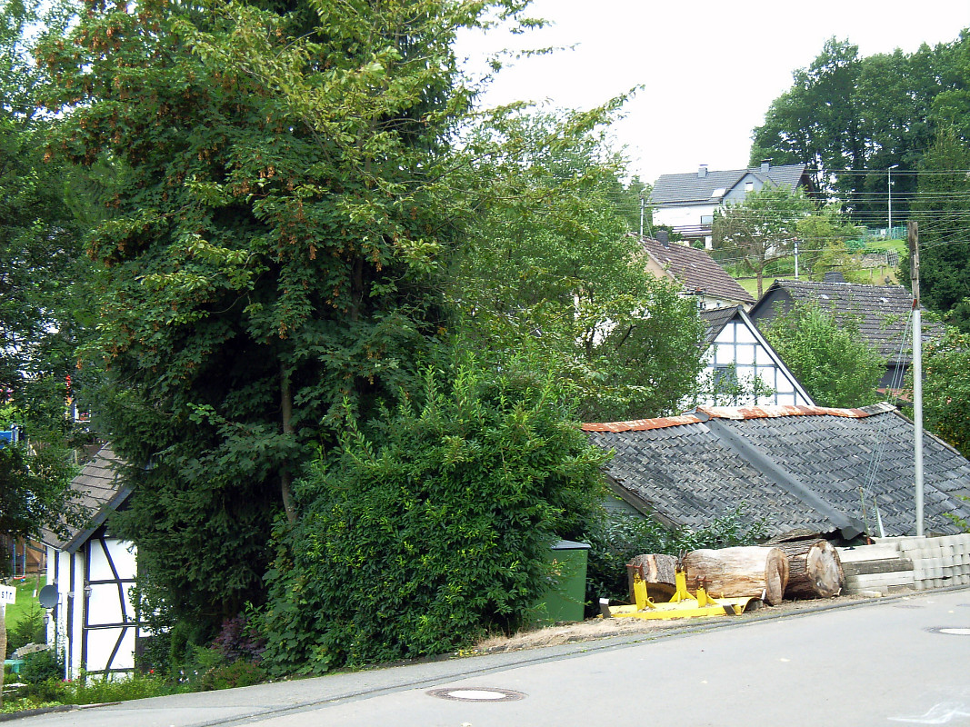 view of Erlenhagen, district of Gummersbach, North Rhine-Westphalia, Germany